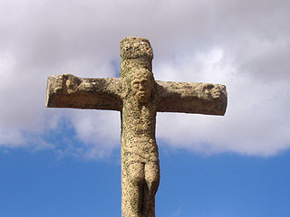 Stone cross in the borderline with Mingorría.